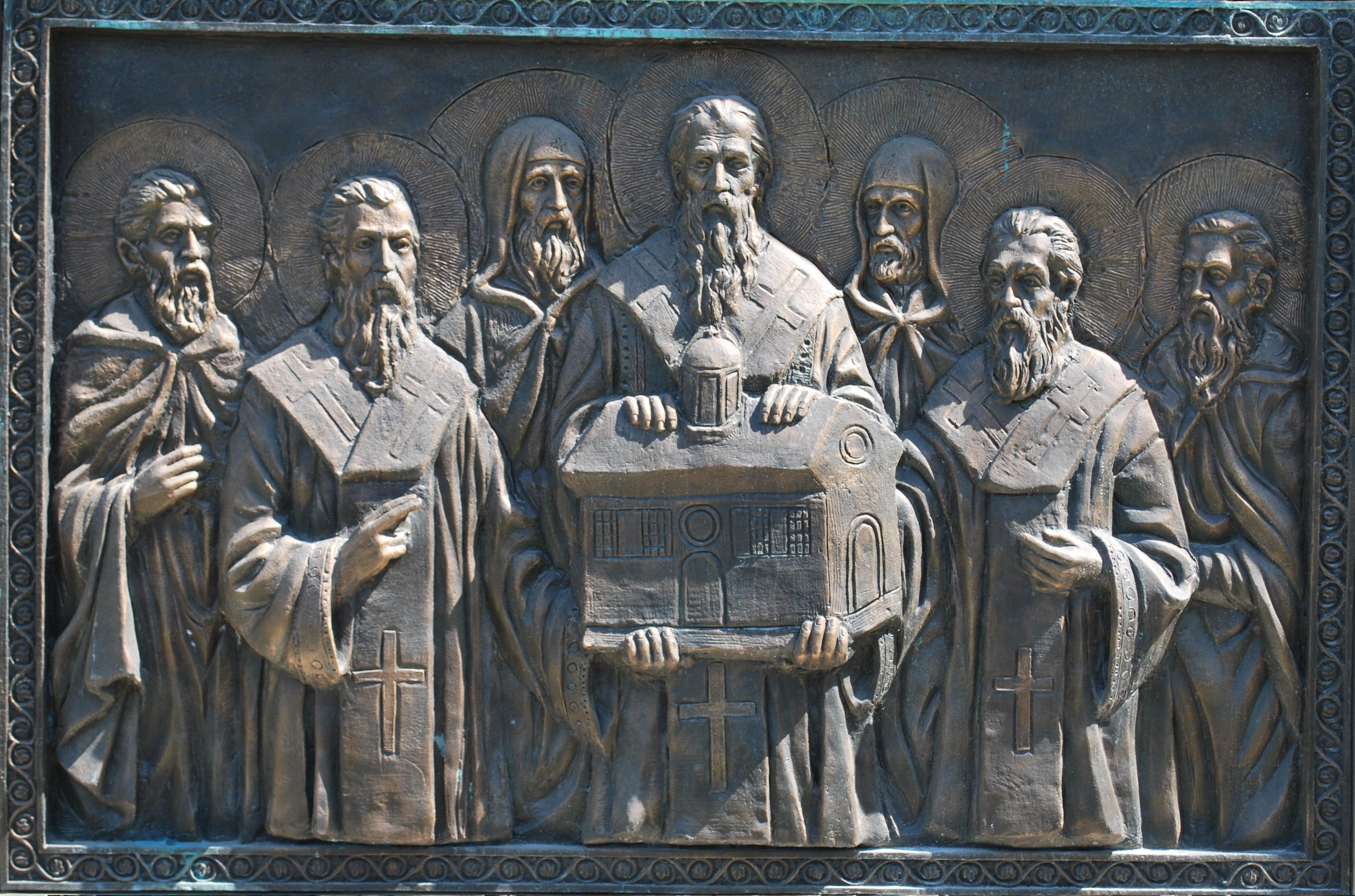 Monument of Saints Cyril and Methodius in Skopje, Macedonia